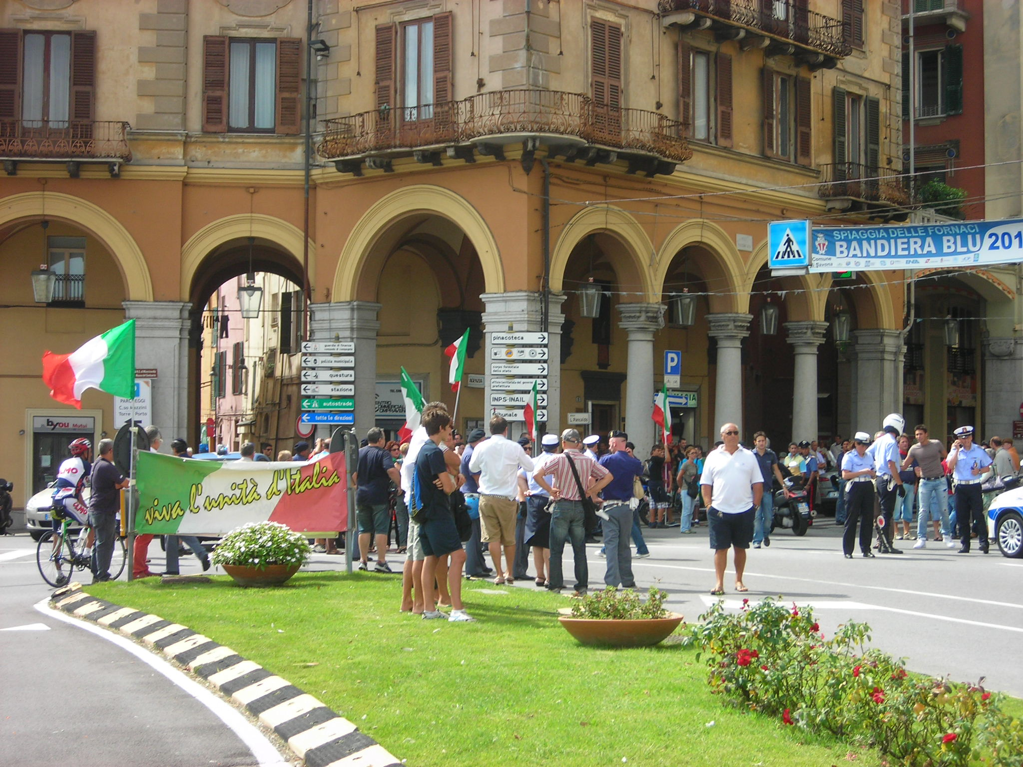 Dispute in Savona for Giro di Padania